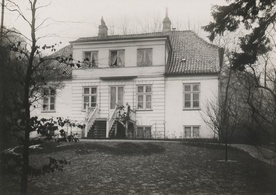 Ny Bakkegård, still extant country house in Frederiksberg. Home of Carl Christian Hall